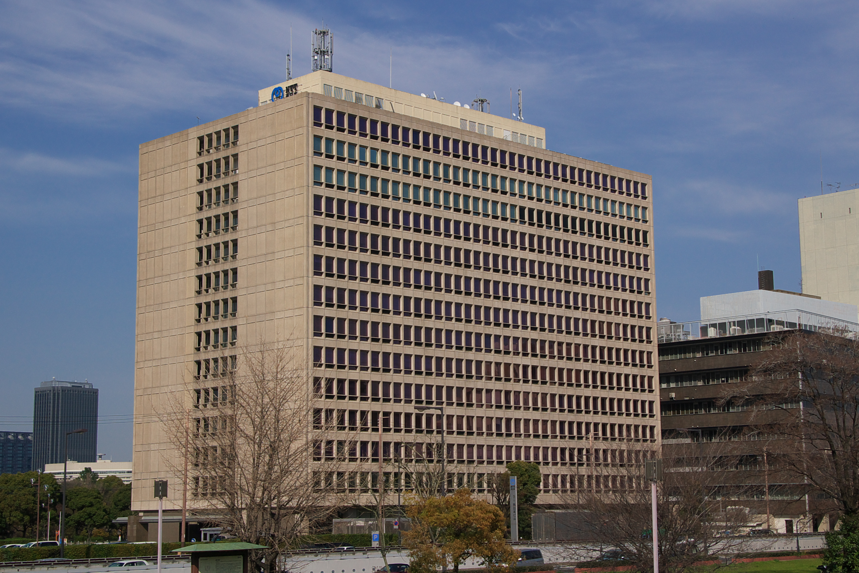 Photograph of NTT West Building, headquarters of Nippon Telegraph and Telephone West Corporation (NTT West), in Chuo-ku, Osaka, Osaka Prefecture, Japan.